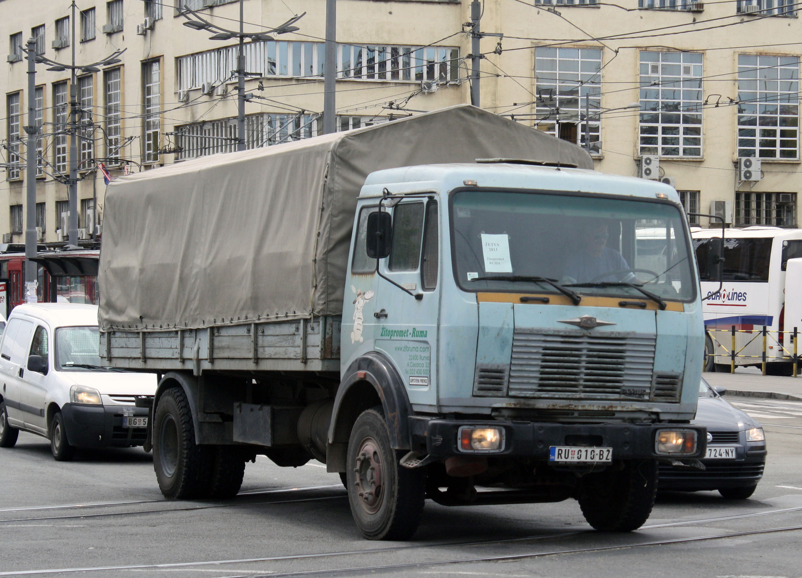 FAP 1620 truck in Belgrade.